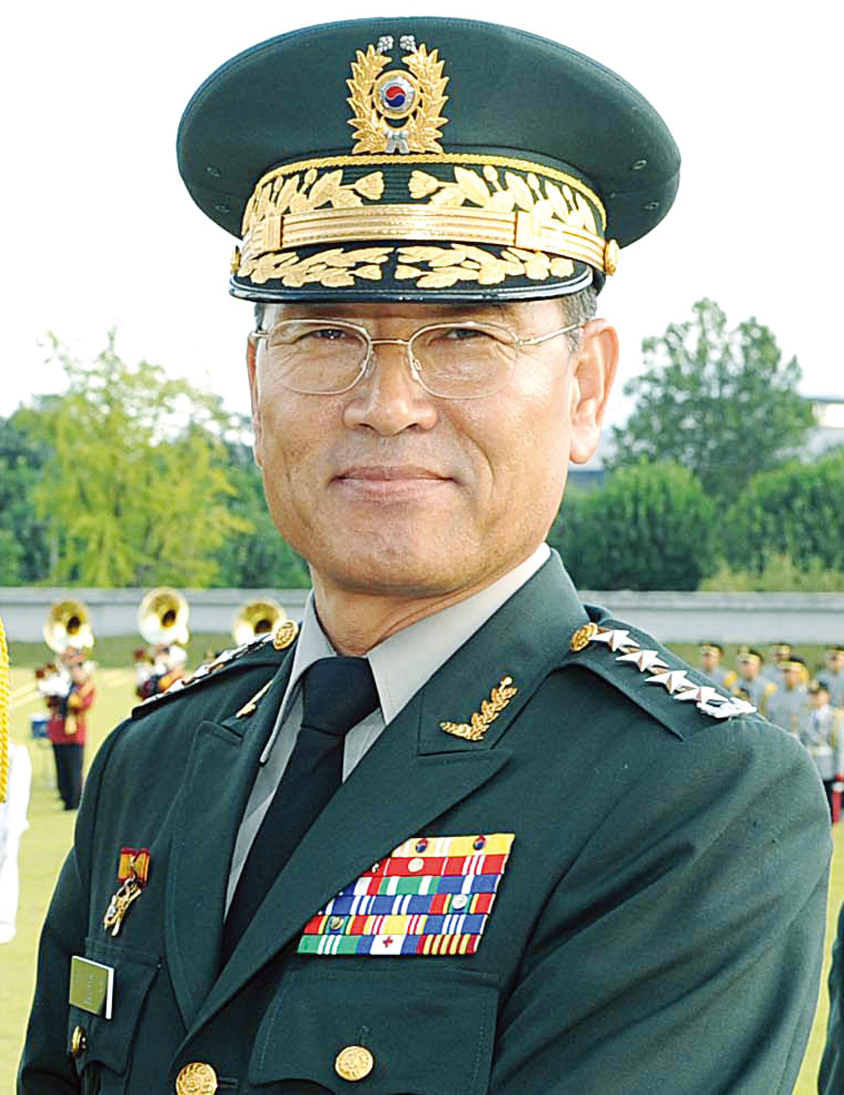 General Lee Sang-eui, newly-appointed Chairman of the Joint Chiefs of Staff.